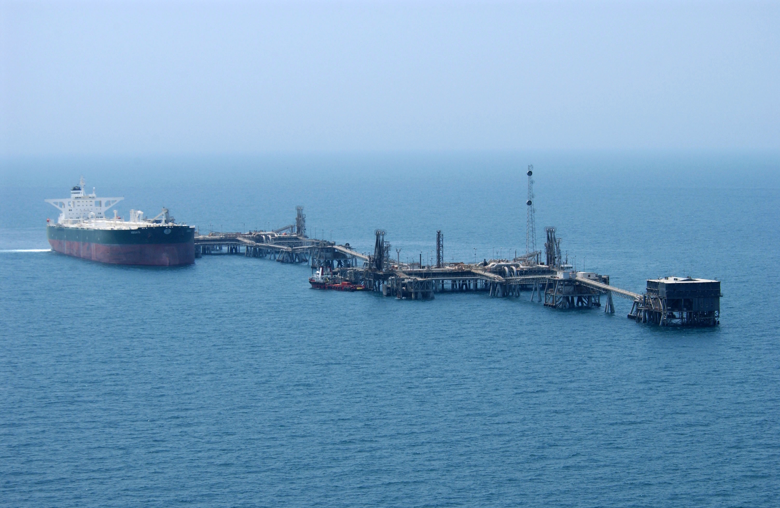 Central Command Area of Responsibility (Jun. 29, 2003) -- Commercial oil tanker AbQaiq readies itself to receive oil at Mina-Al-Bkar Oil terminal (MABOT), an off shore Iraqi oil installation. The supertanker AbQaiq is the first commercial vessel to receive exported Iraqi oil as an off shore customer since 1991, outside of the United Nations' Oil-For-Food program. AbQaiq is scheduled to take on an estimated 2 million barrels of crude oil. U.S. Navy and coalition forces are helping to provide security, enforcing an exclusionary perimeter around the terminal. U.S. Navy photo by Photographer's Mate 2nd Class Andrew M. Meyers. (RELEASED)